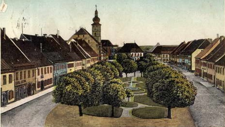 Postcard showing the town of Tirschenreuth at the end of the 19th century